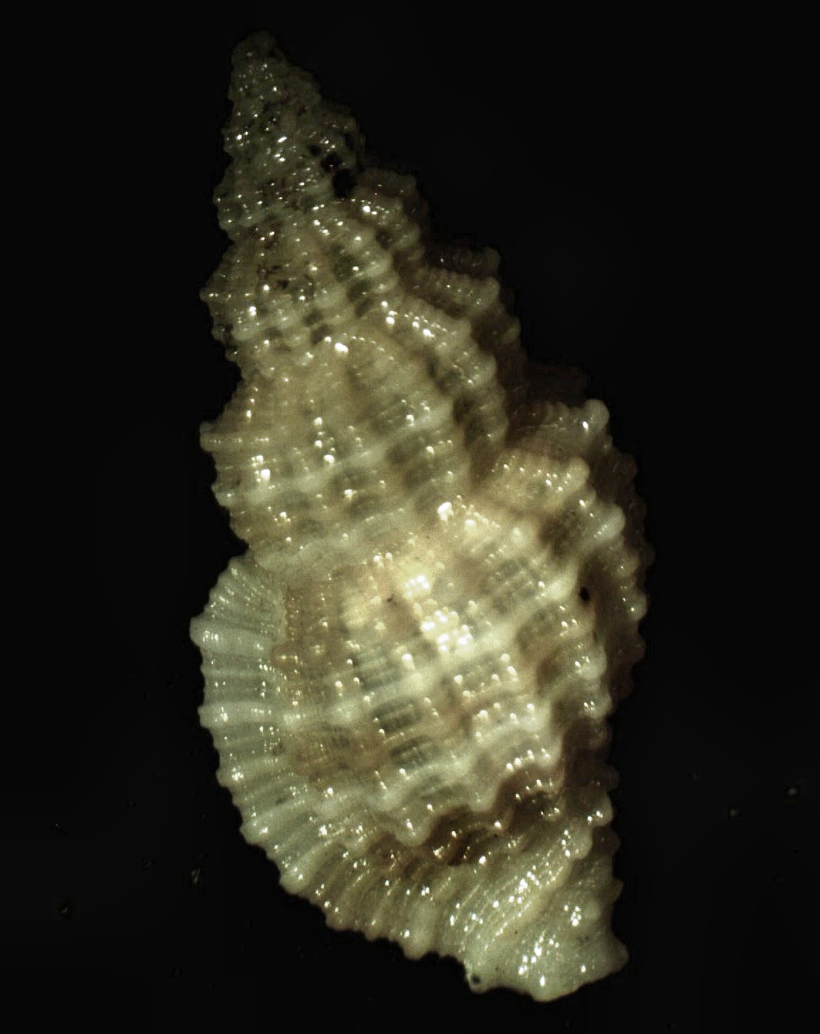 Bailya parva C. B. Adams, 1850, a true whelk from the family Buccinidae